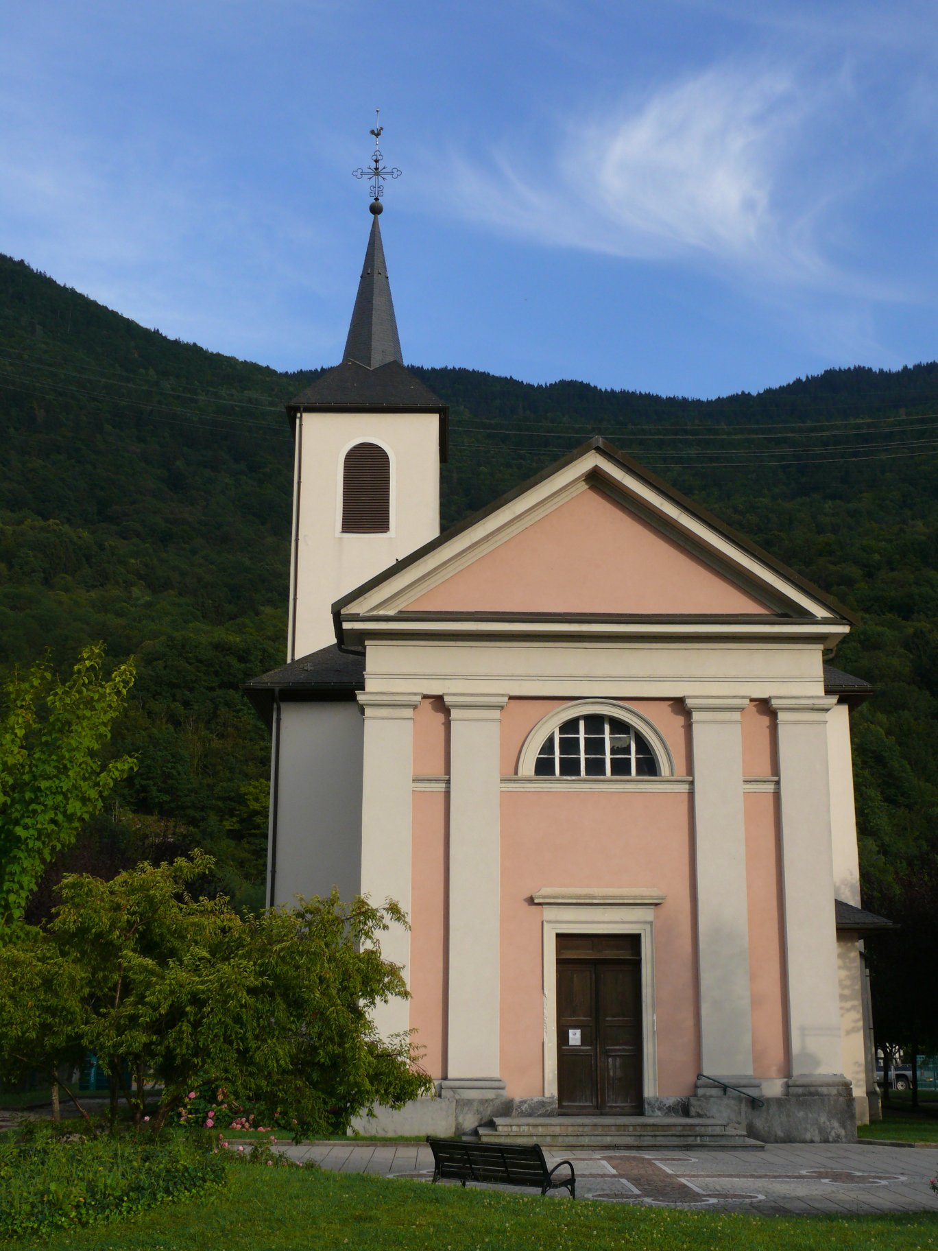 Saint-Alexis' church of Grignon (Savoie, Rhône-Alpes, France).